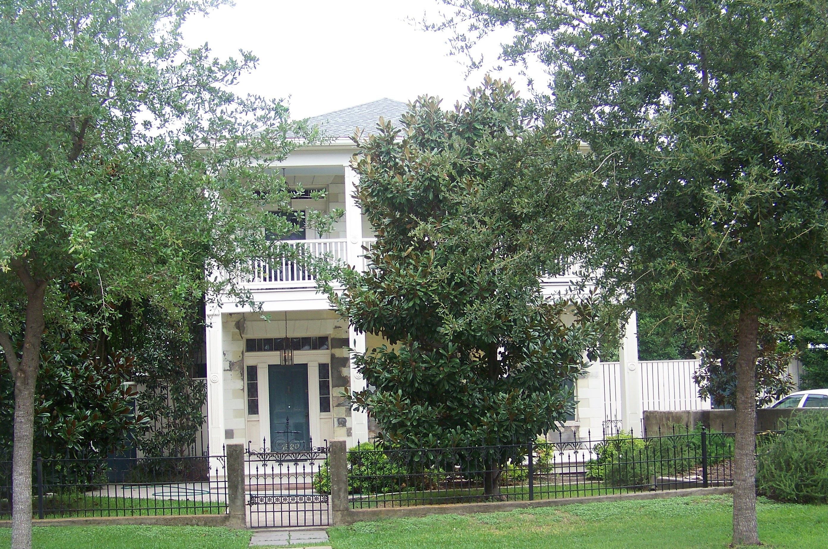 The south facade of the George Washington Grover House on August 18, 2016.